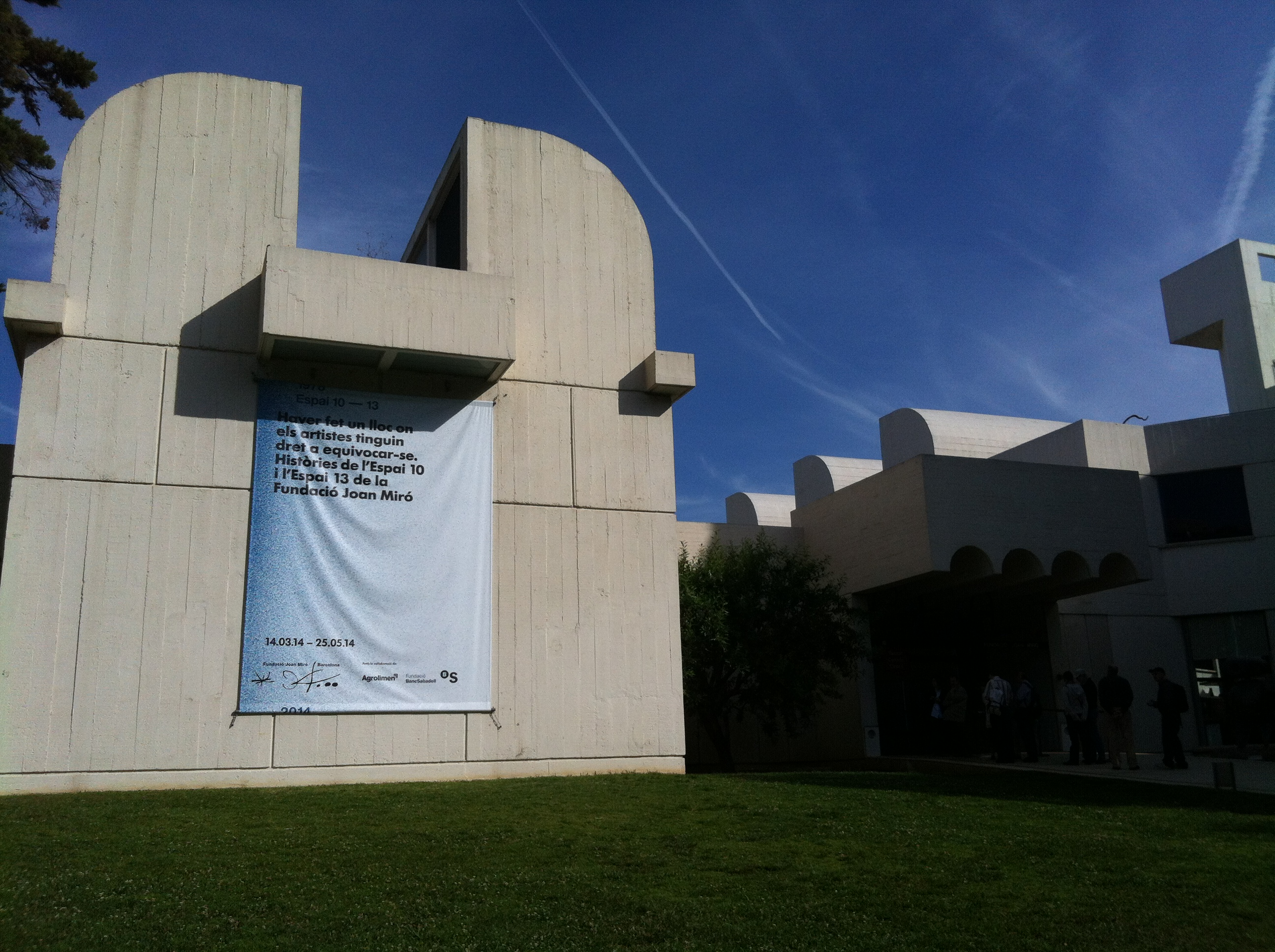 Joan Miró Global Challenge. Edit-a-thon, Fundació Miró 2014